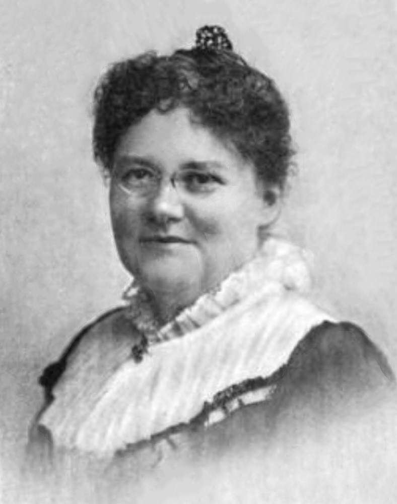 Lillie Eginton Warren, photo by Rockwood, New York